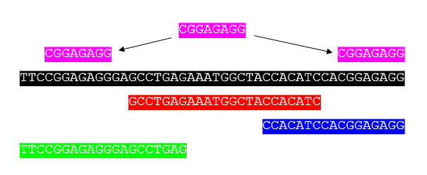 Sample sequence showing how a sequence assembler would take fragments and match by overlaps. Image also shows the potential problem of repeats in the sequence.